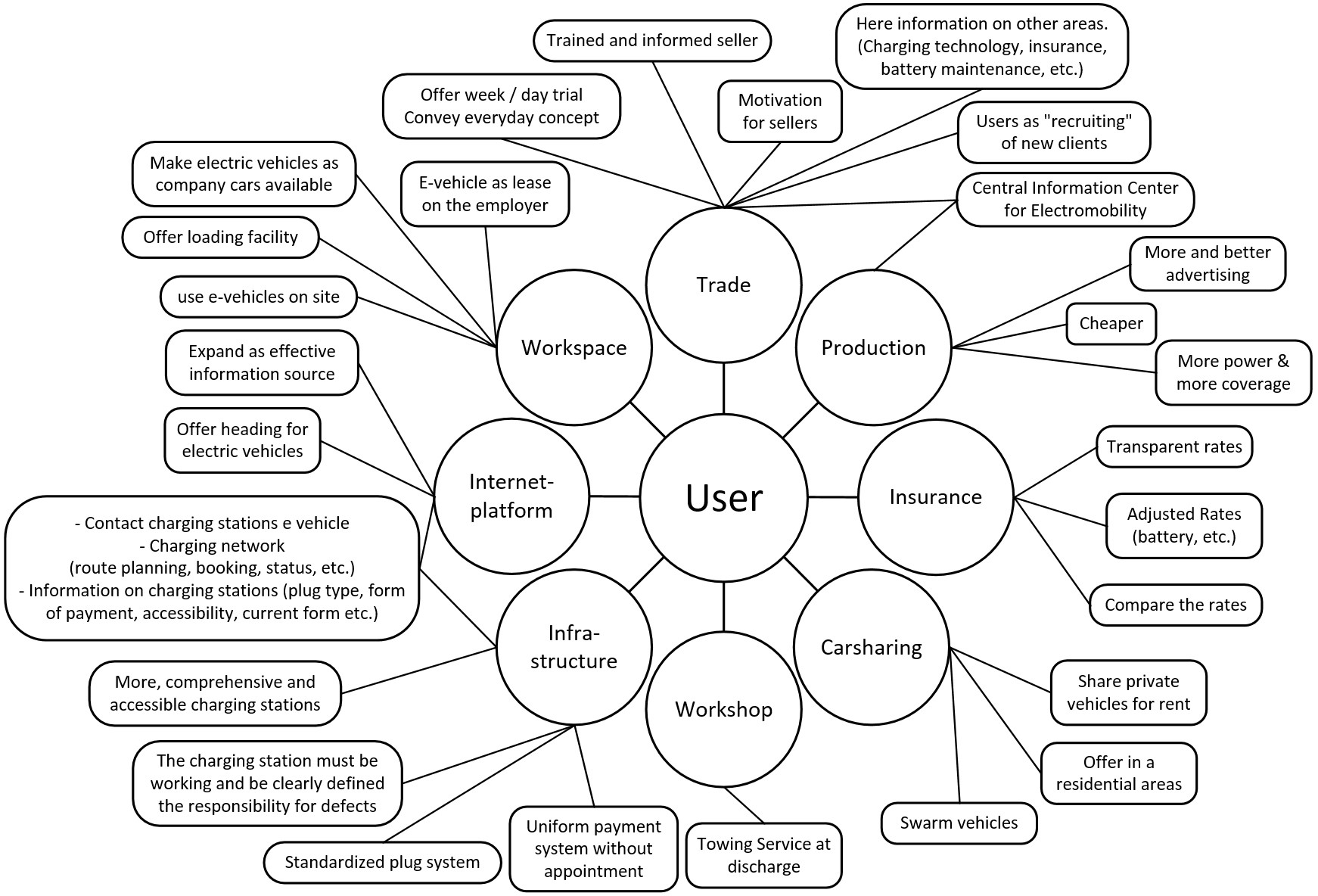 Replies in corrected usage model